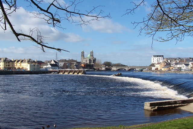 River Shannon, Athlone, Co. Westmeath, Ireland County Roscommon is on the left bank, Westmeath on the right. St Peter and Pauls Cathedral can be seen in the distance.